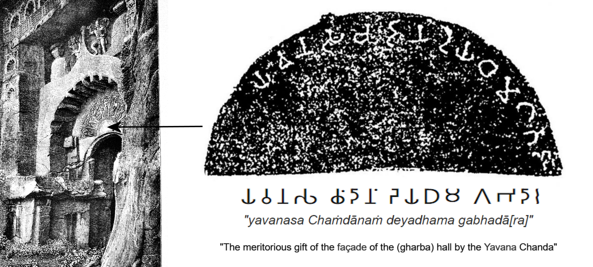 Manmodi Yavana Chamdana inscription "yavanasa Chaṁdānaṁ deyadhama gabhadā[ra]" 𑀬𑀯𑀦𑀲 𑀙𑀁𑀤𑀸𑀦𑀁 𑀟𑁂𑀬𑀥𑀫 𑀕𑀪𑀤𑀸𑀭 "The meritorious gift of the façade of the (gharba) hall by the Yavana Chanda"[1]